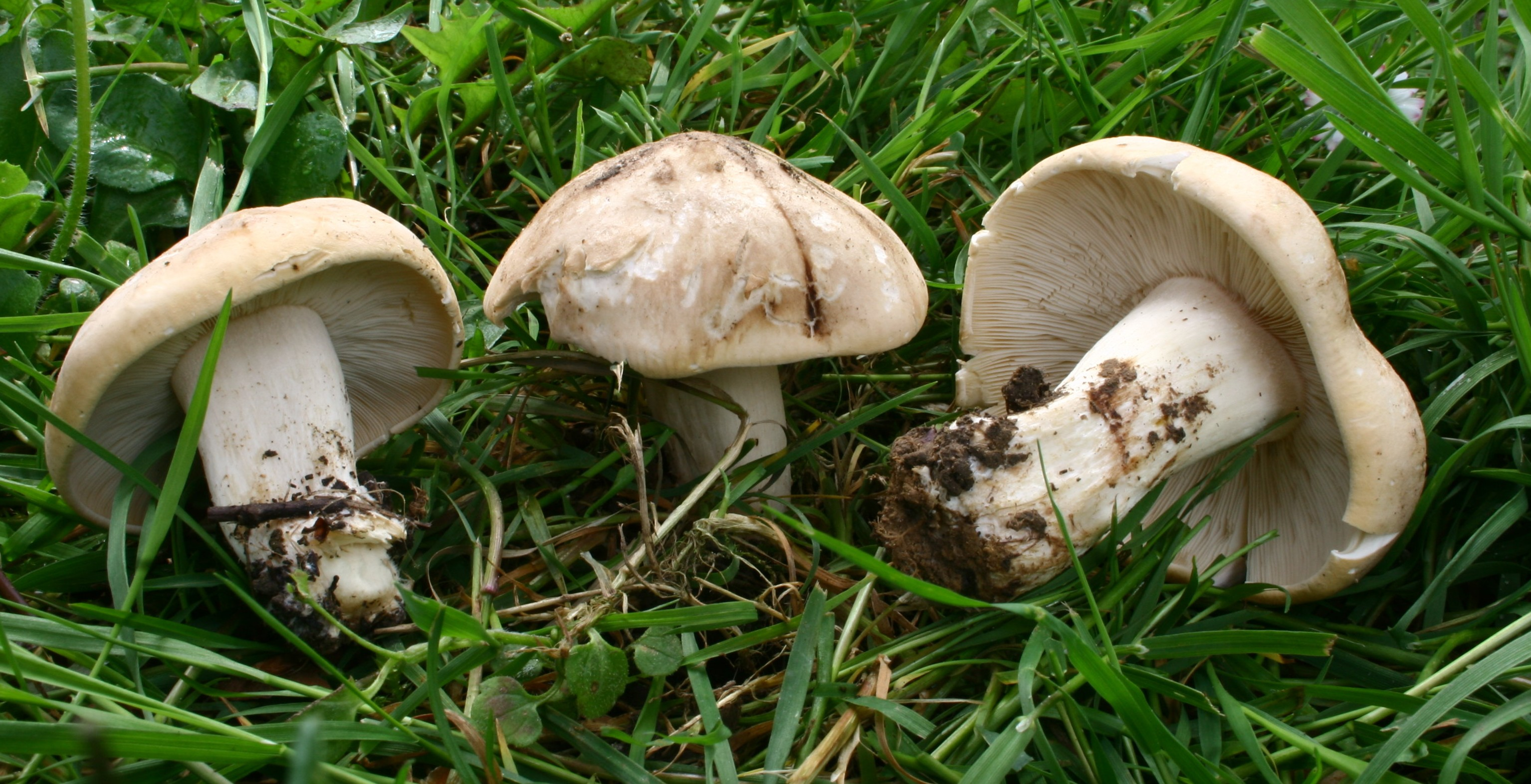 Calocybe gambosa (= Tricholoma gambosum), St. George's mushroom, in a park near Massy, France.